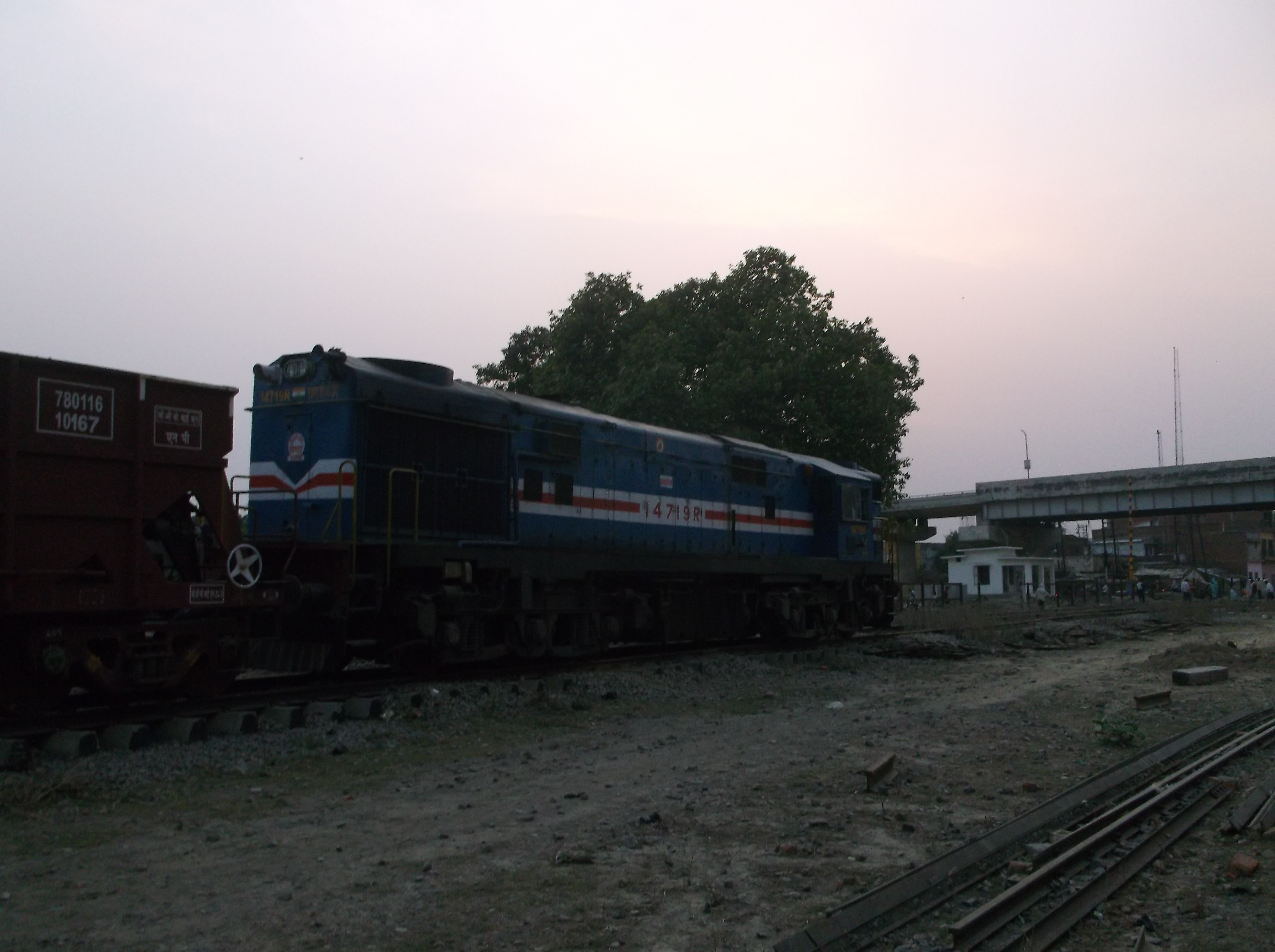 a BG train with at newly constructed broad gauge line at bahraich